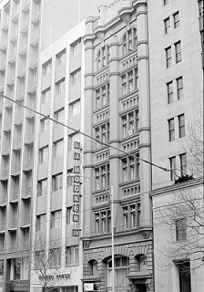 Photograph of Hooker House Melbourne in 1972